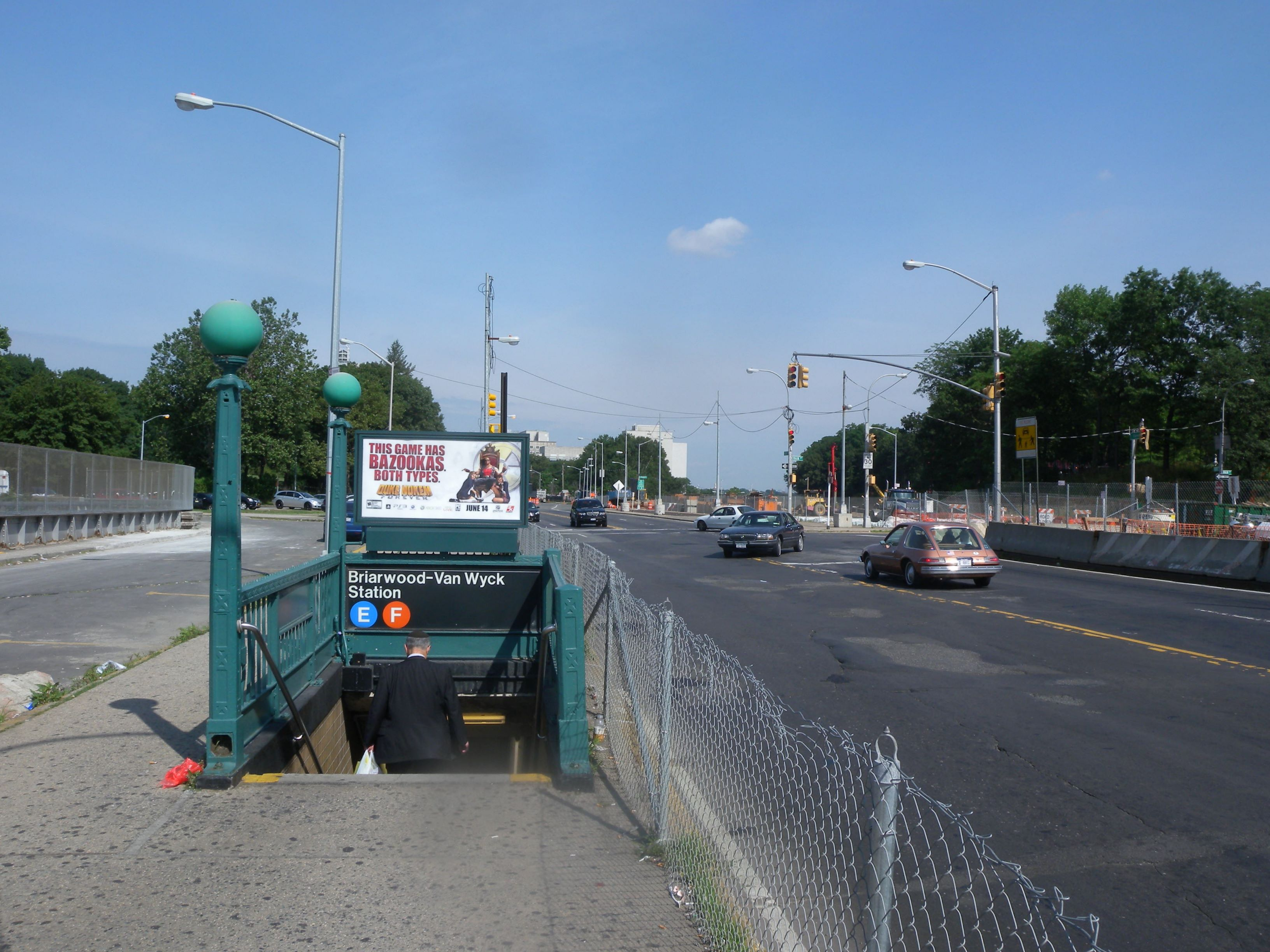 Looking northwest at southern stair of Briarwood-Van Wyck station on a sunny late morning.